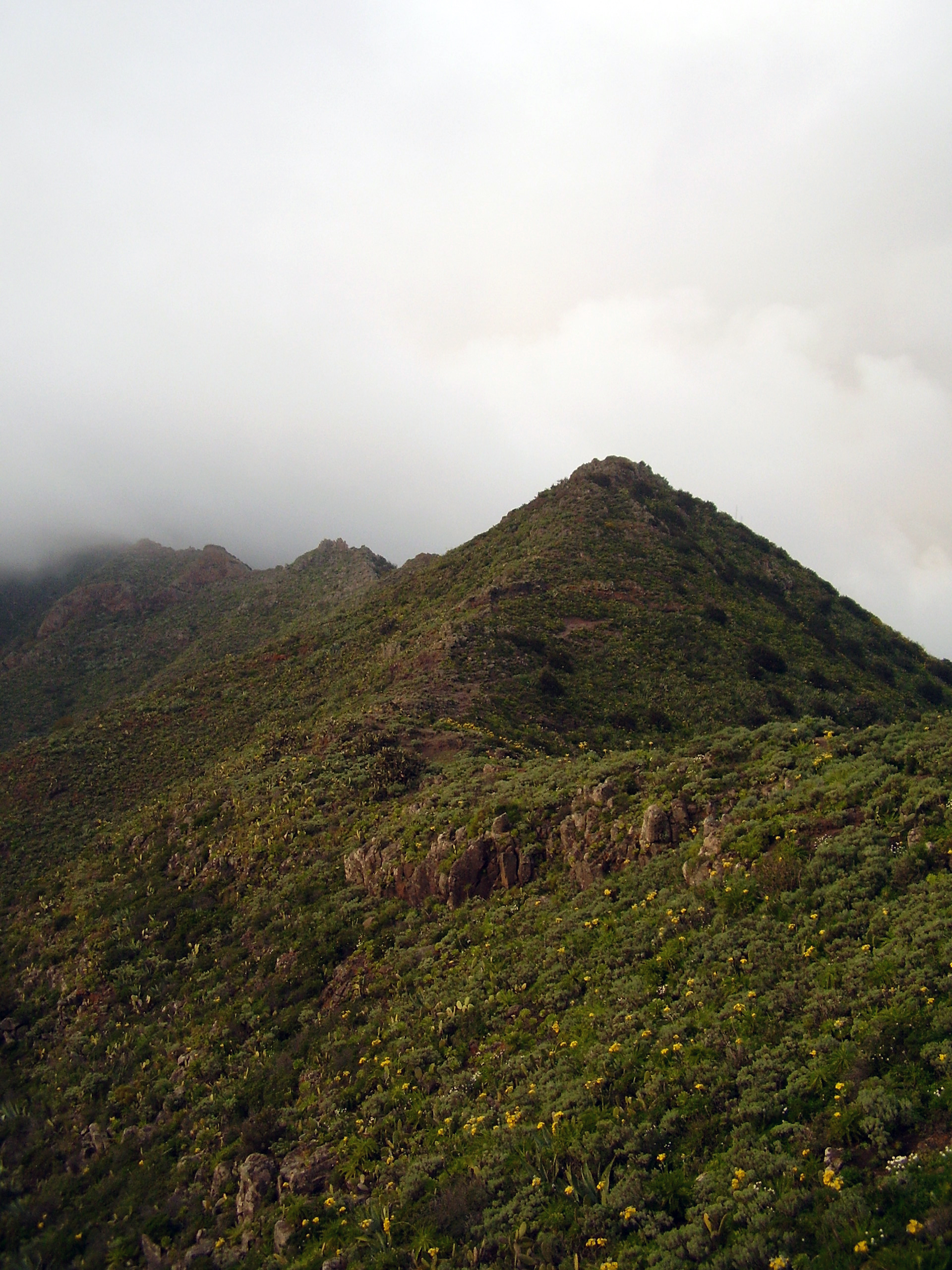 A photograph of mountains and clouds at sunset; taken near the village of Masca, located in the northwestern part of Tenerife, one of the Canary Islands.